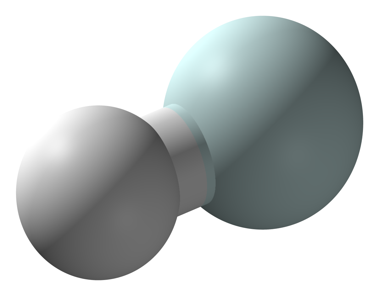 Ball-and-stick model of the helium hydride cation, HeH+. Structural data from J. Mol. Model., 2009, 15, 35-40.